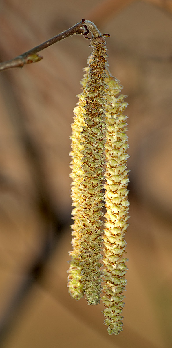 This image shows male catkins on Common Hazel.